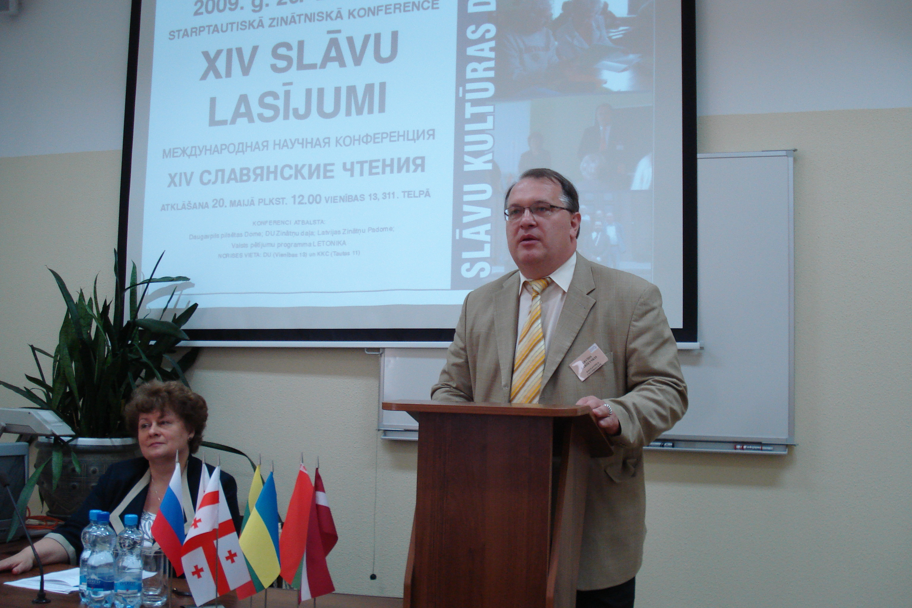 Professor Arvīds Barševskis, the rector of the Daugavpils University. Born 20 09 1965